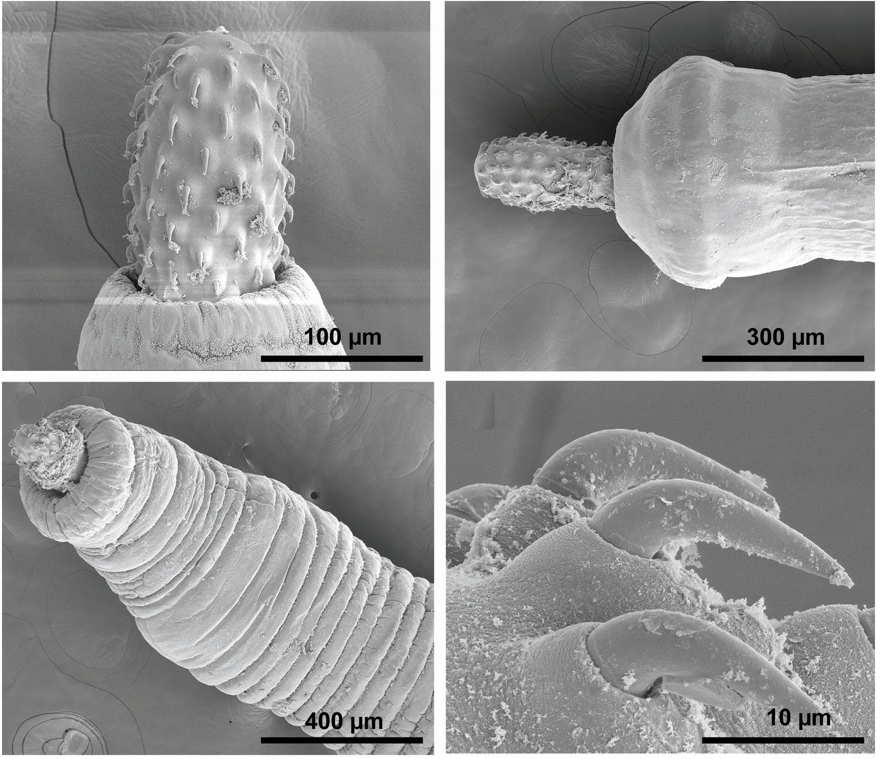 Views of the proboscis of Moniliformis saudi